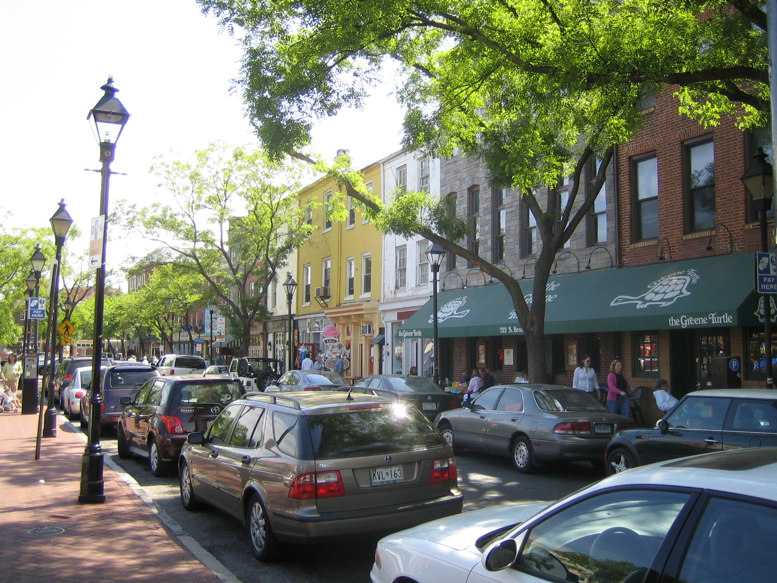 Pubs along South Broadway Street in Fells Point